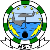 Emblem of the U.S. Navy Helicopter Anti-Submarine Squadron 7 (HS-7) "Dusty Dogs". HS-7 Lineage: Established as HS-7 on 15 December 1969. Insignia approved: 24 April 1970.